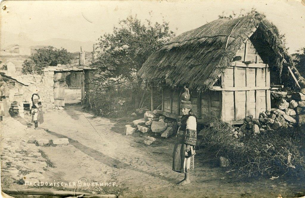 Macedonian farm in the village Bonče, located in Mariovo. German postcard, circa 1916.